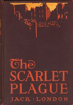 Cover of the first edition of The Scarlet Plague by American author Jack London (1876-1916).